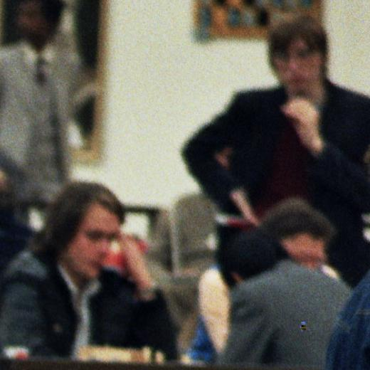 Ralf Lau, Hans-Joachim Hecht and Stefan Kindermann, Chess Olympiad 1984 in Thessaloniki, Photographer Gerhard Hund.